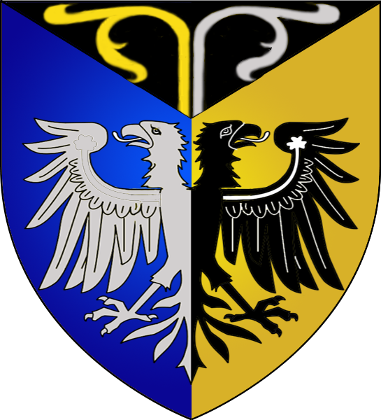 Coat of arms of the municipality of Frisange, Luxembourg